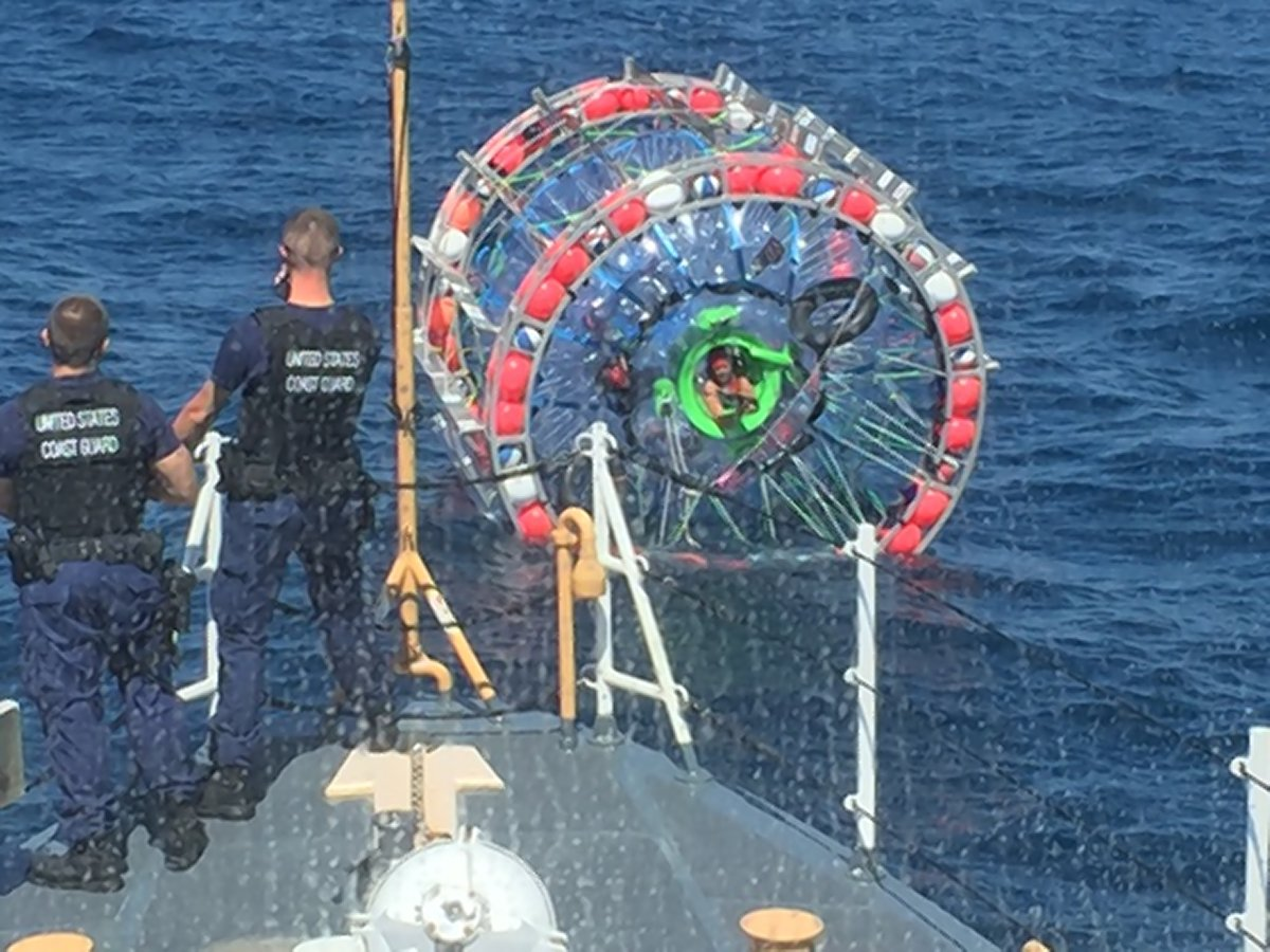 My local news described this craft as a "seagoing hamster ball". Original caption: "US Coast GuardU.S. Coast Guard crews stopped Reza Baluchi (seen sticking his head out of his bubble craft) during his journey from Florida to Bermuda on Sunday. "